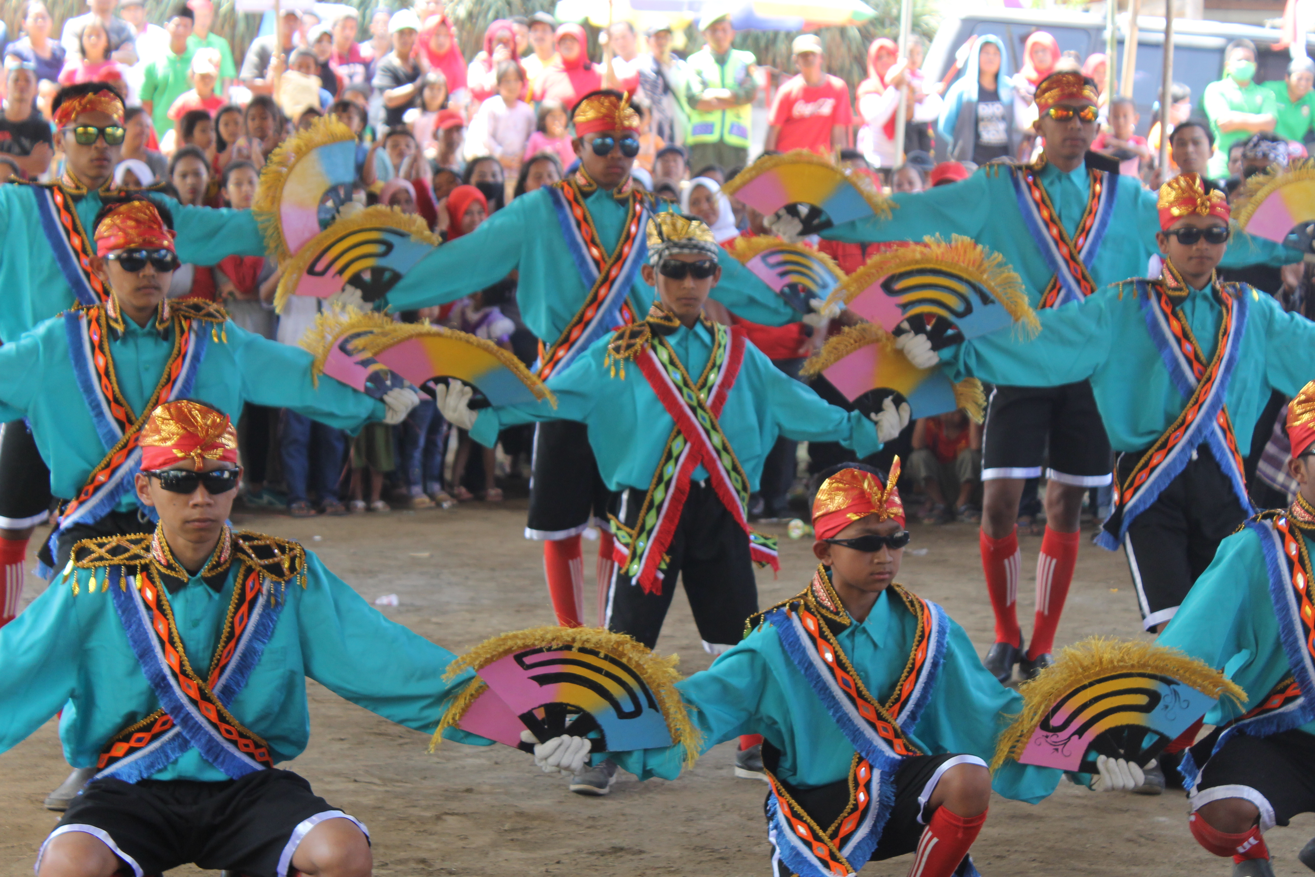 Salah satu kesenian yang hampir hilang di Indonesia. Tari Rodat merupakan perpaduan antara tarian dengan musik dan lagu Islami dengan, setiap gerak diiringi dengan musik dan lagu Islami.